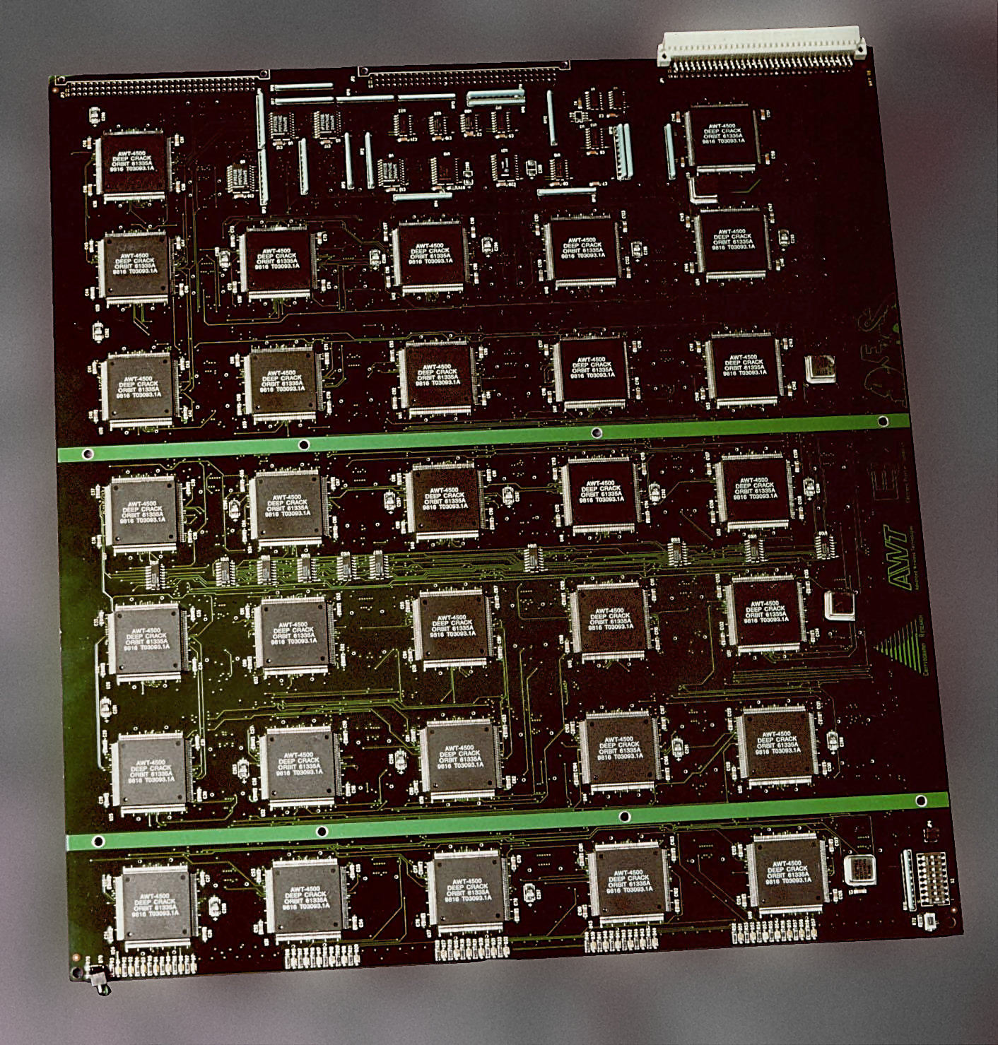 DES Cracker circuit board fitted with Deep Crack chips Copyright: the Electronic Frontier Foundation. Information on licenses found from: ; private communication by User:Matt Crypto